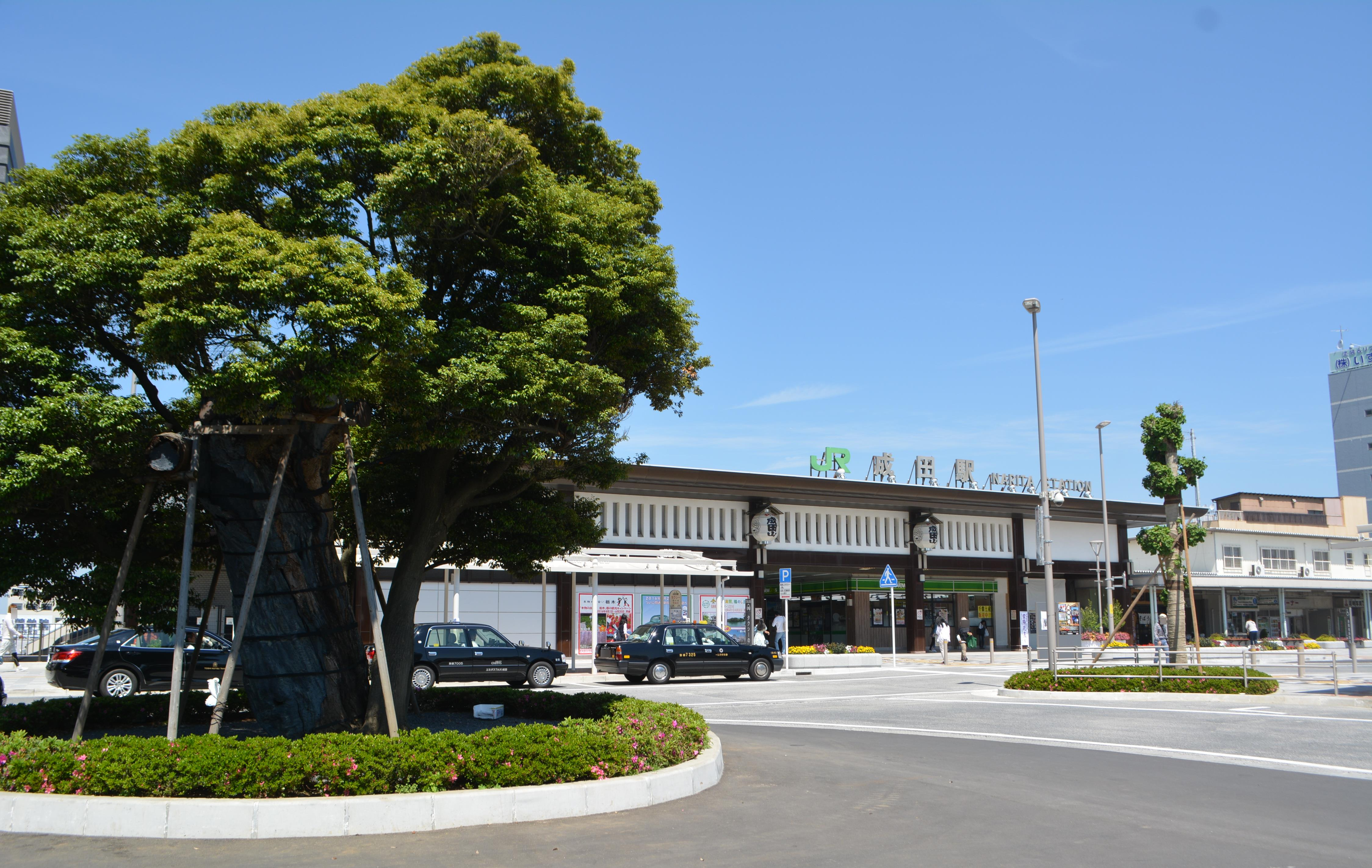 JR Narita Station in Narita, Japan